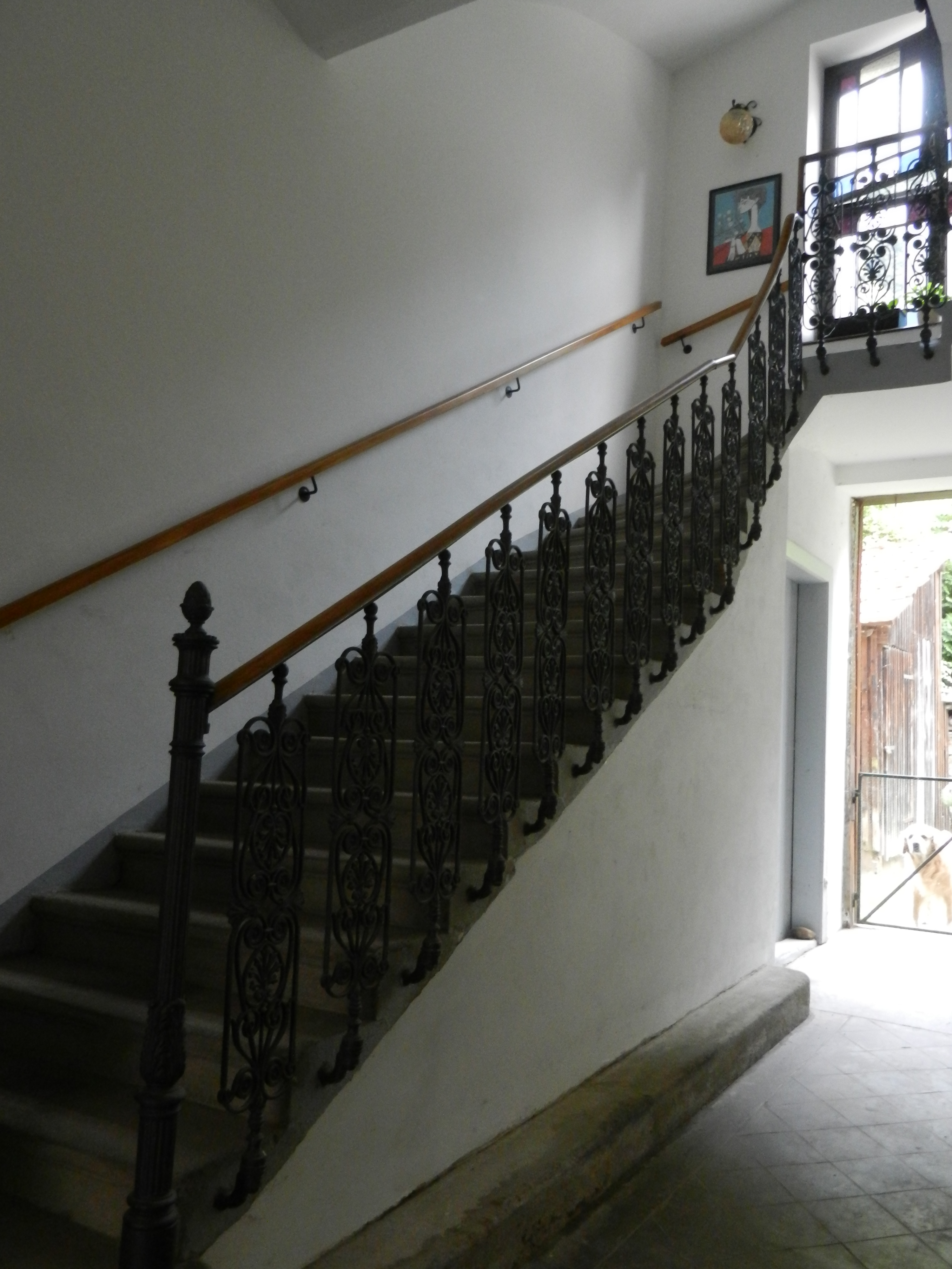 baluster, wrought iron, Ptuj, Slovenia